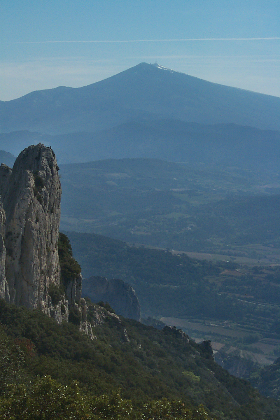 The Mont Ventoux, Vaucluse, Provence, south of France. This picture is taken from the Dentelles de Montmirail. Picture Taken on 28/04/2005